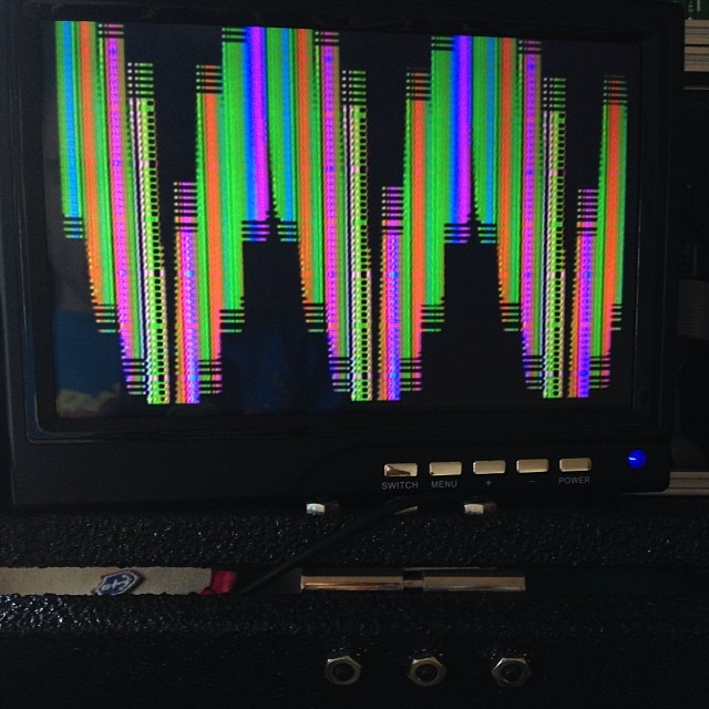 “ #atari video #synth chillin w/ no sound in” Flickr Tags: instagram app square square format iphoneography uploaded:by=instagram vision:text=062 vision:outdoor=0778 .